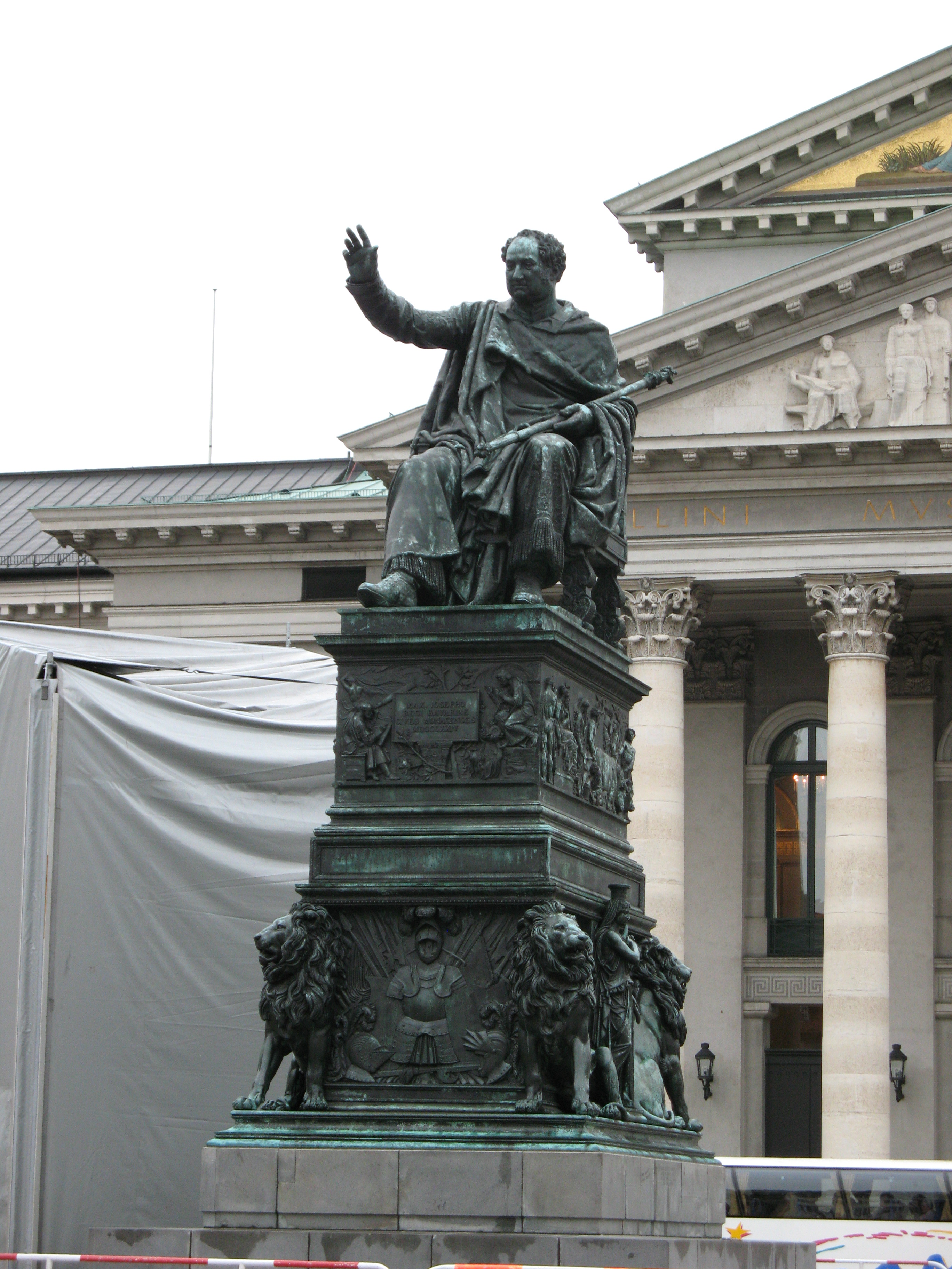 Max Joseph Plaza, Munich, Germany